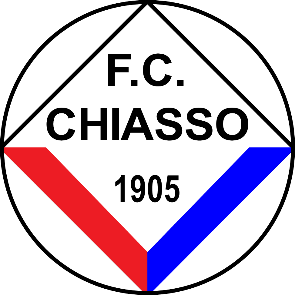 Football Club Chiasso logo (90s)